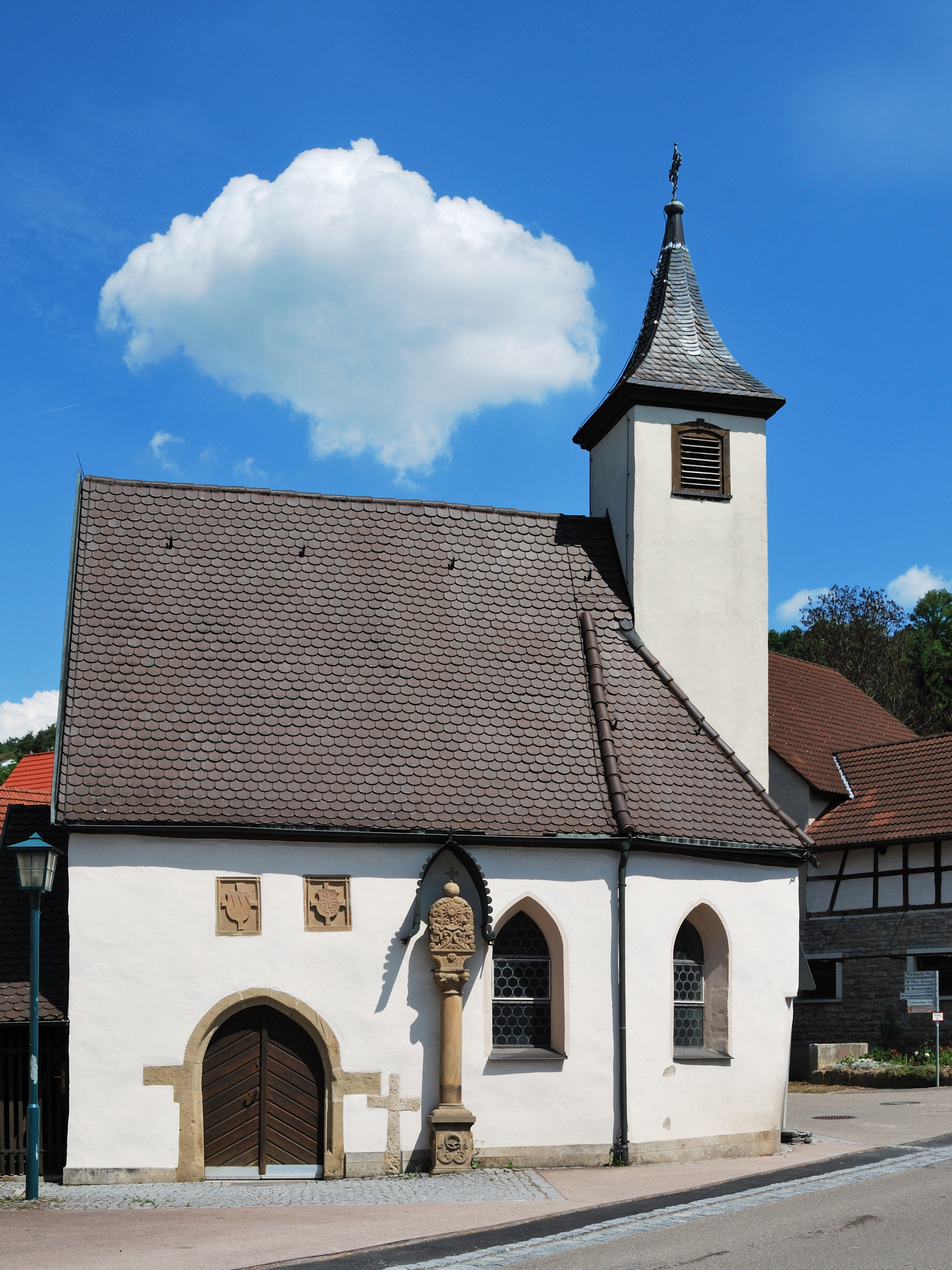 St. Bernhard chapel in Ailringen in Southern Germany.